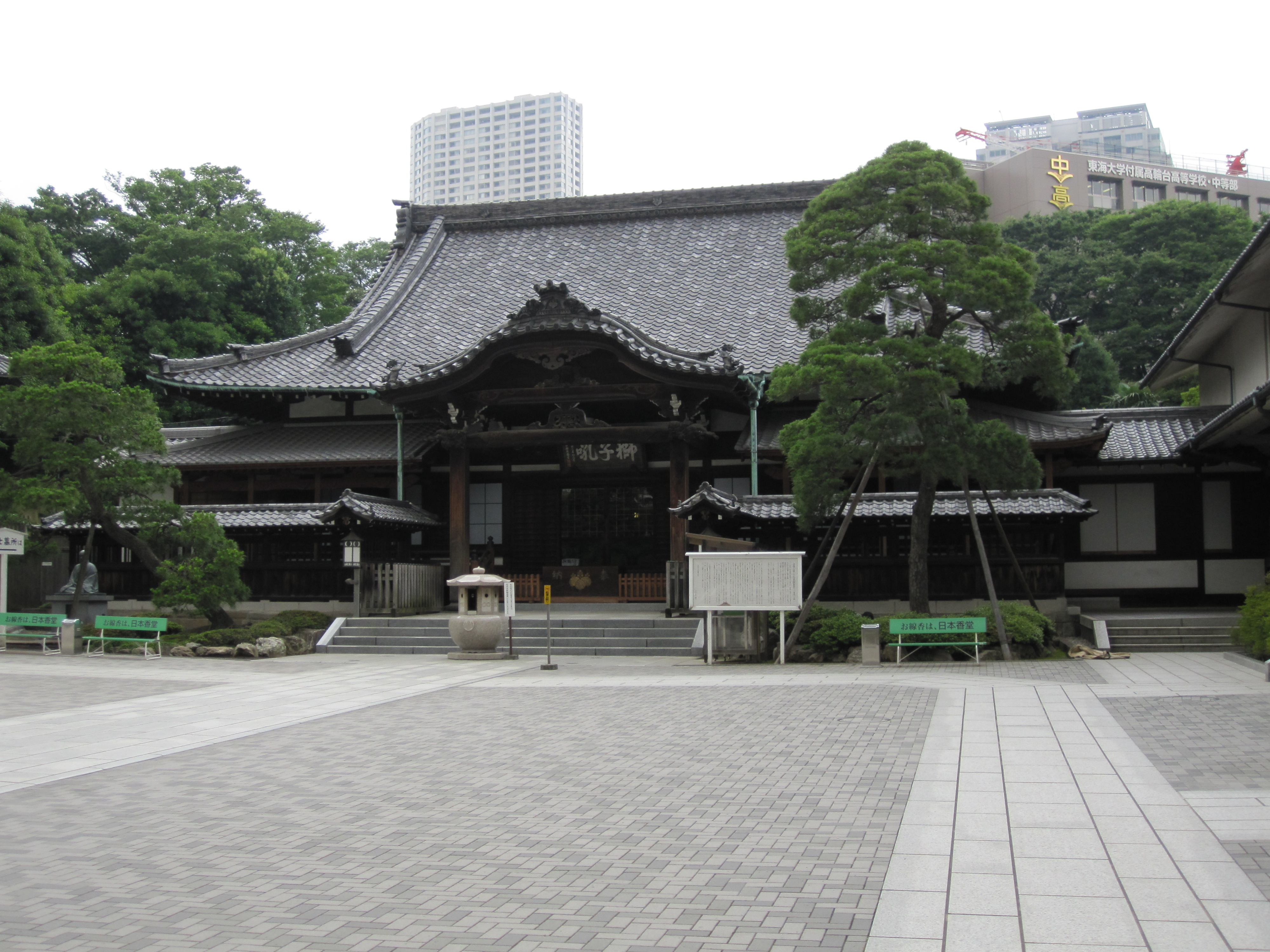 Main hall of Sengaku-ji temple